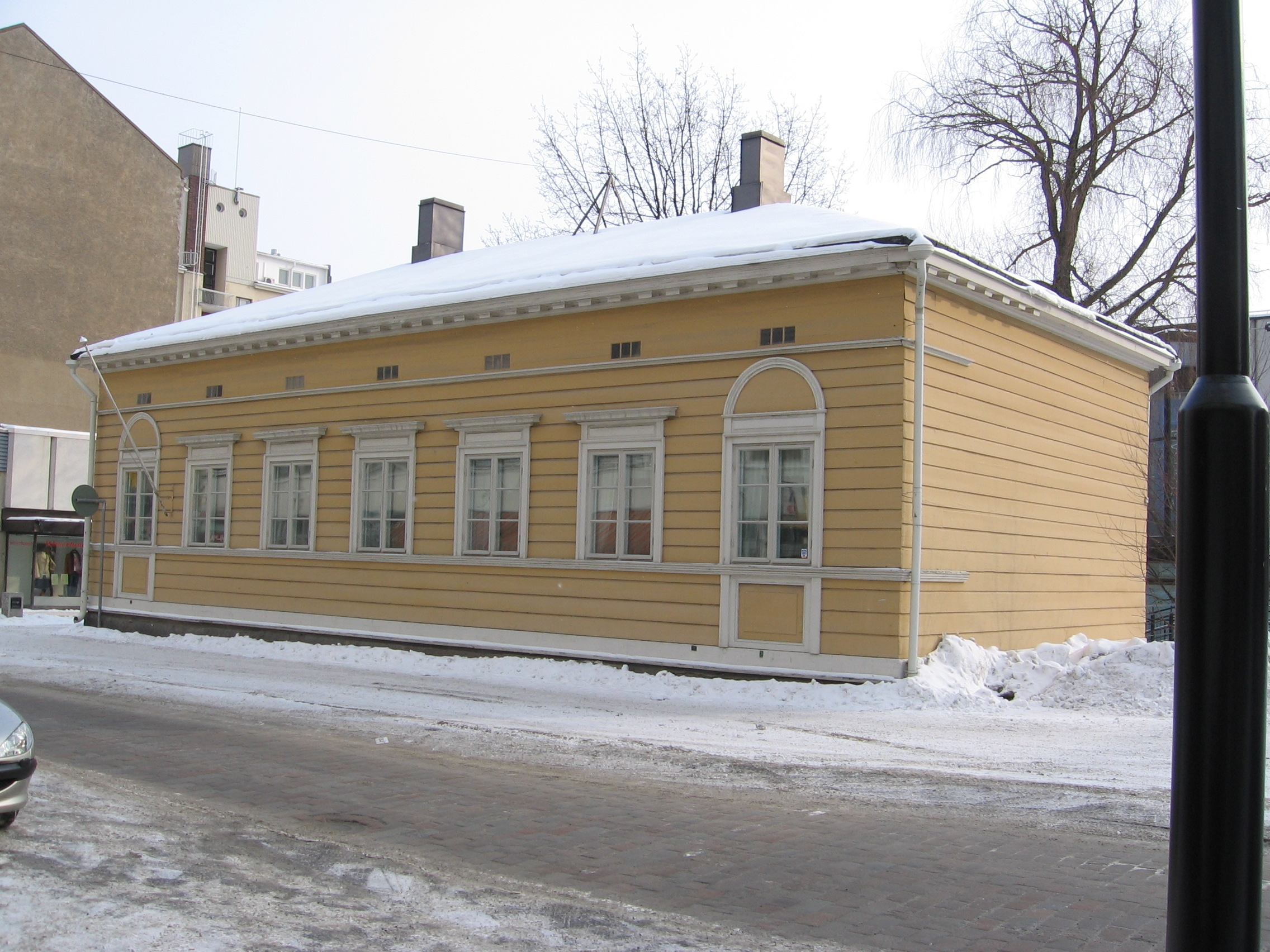 Birthplace of Jean Sibelius